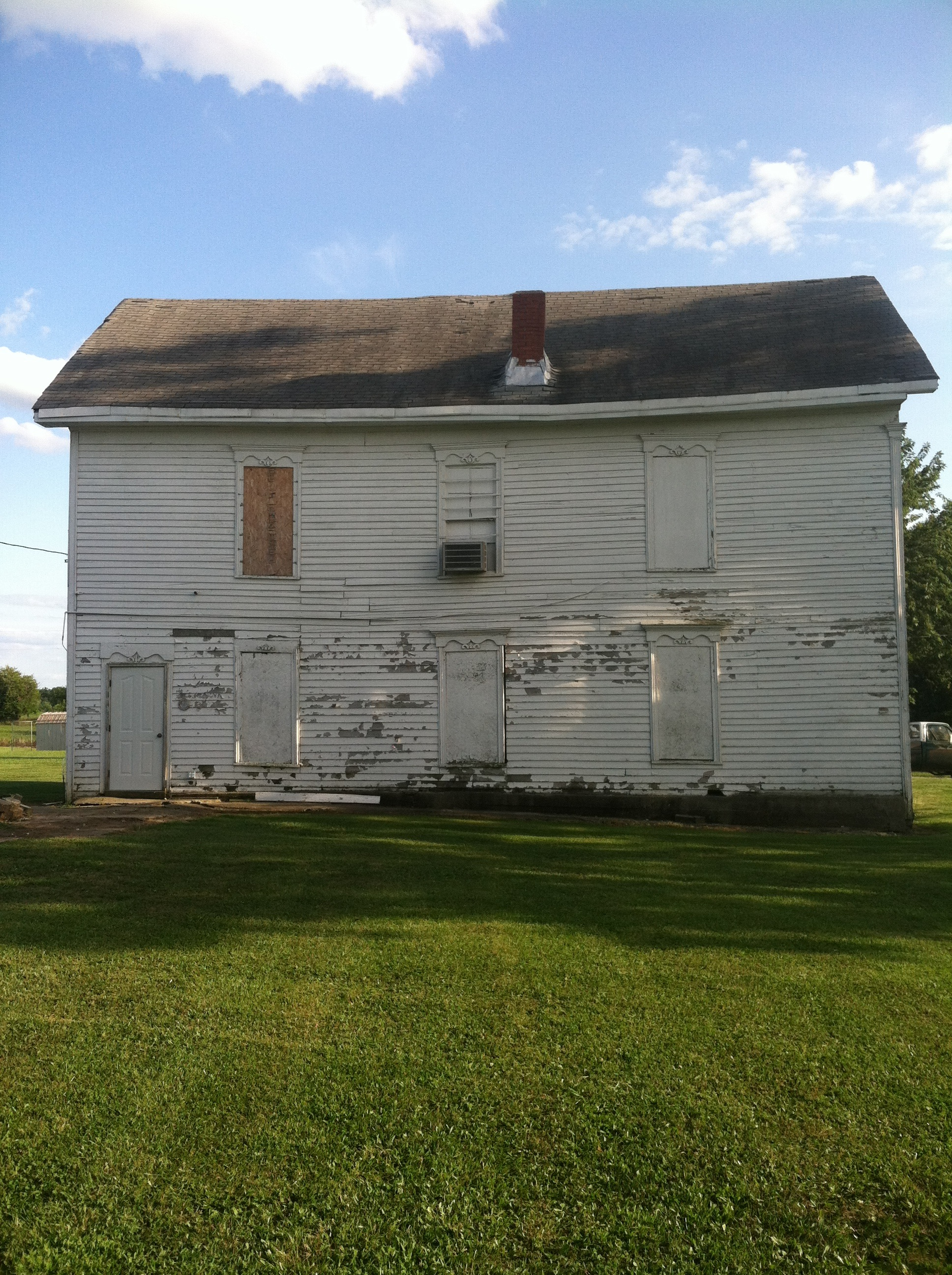 Masonic lodge and public school house in Harrisburg, Missouri.